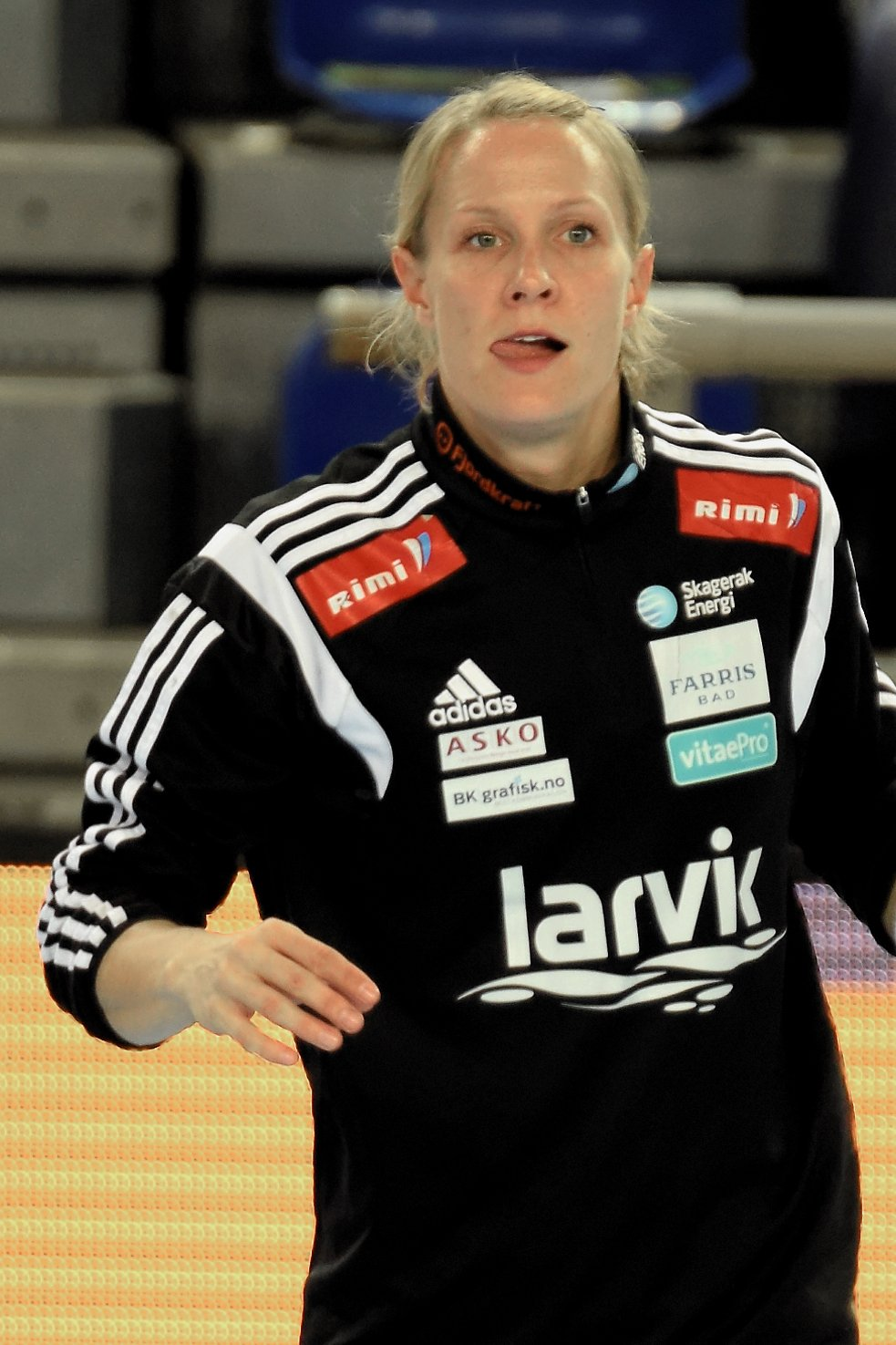 Tine Rustad Albertsen - EHF Champion's League, Metz Handball / Larvik HK - 15 november 2014.